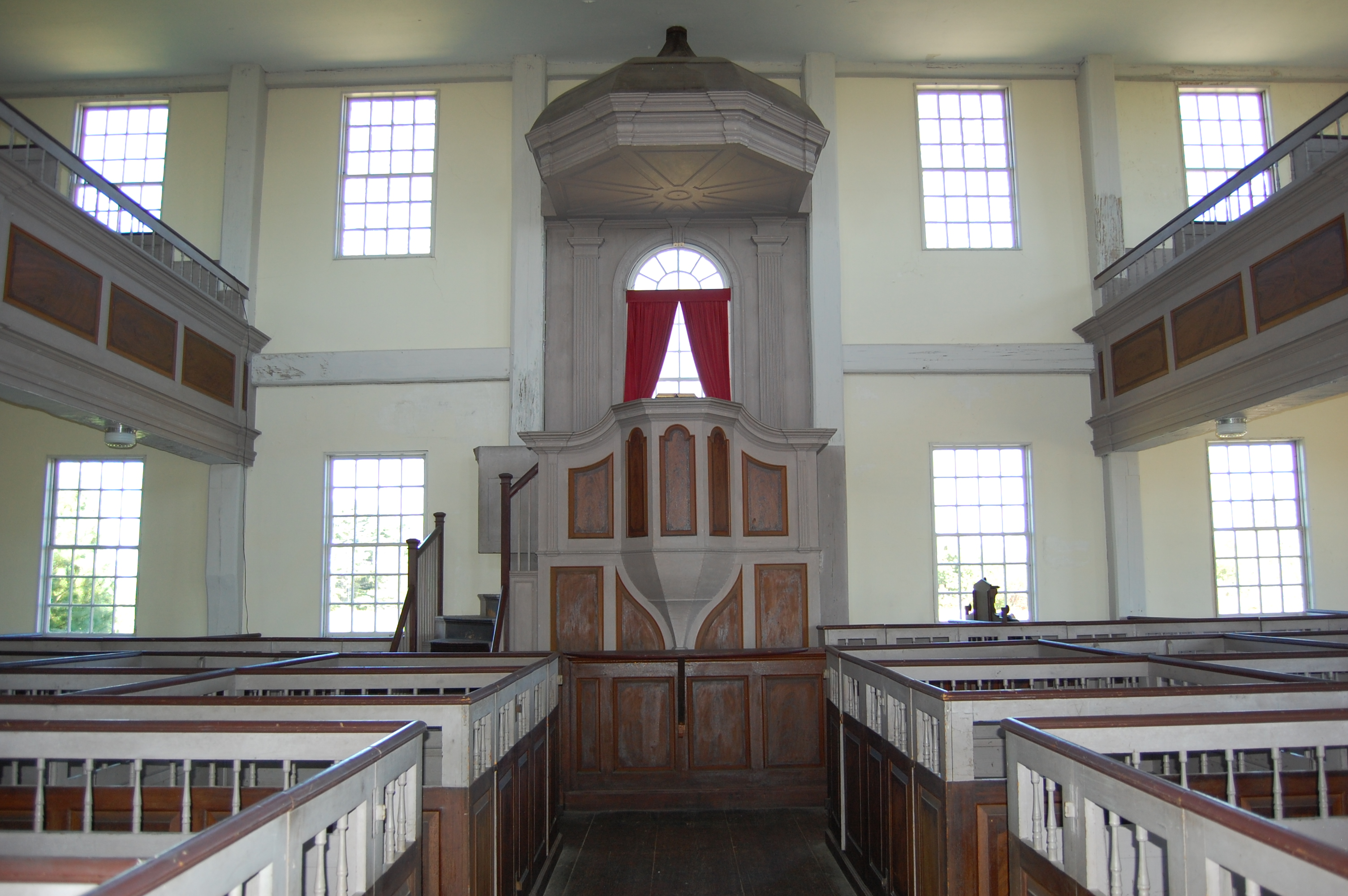 Interior of Colonial Meeting House in Alna, Maine (USA).